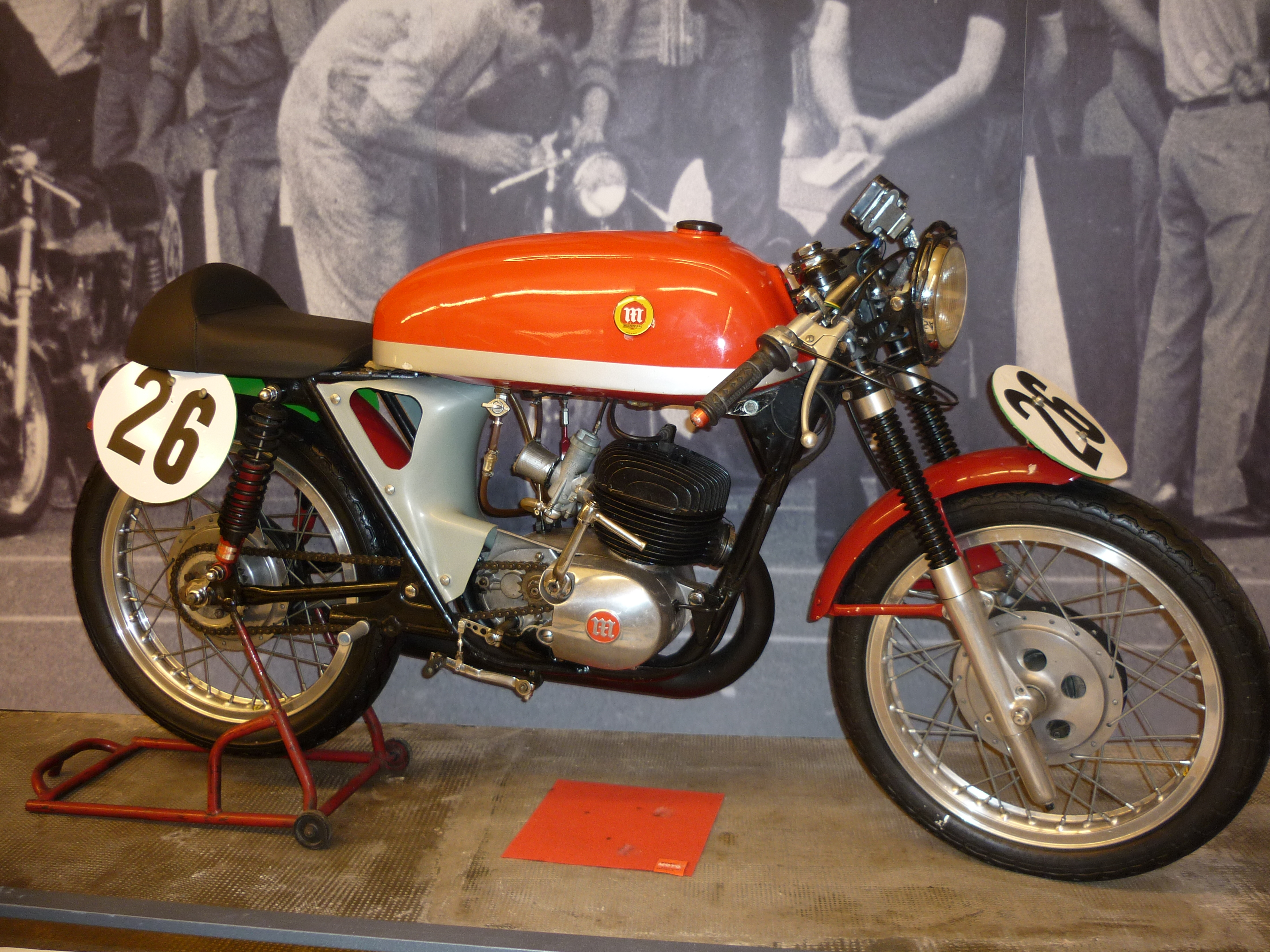 Montesa Impala 175cc. This bike was ridden by Oriol Regàs and Josep Antoni Carné at IX 24 Hours of Montjuïc, on 1963